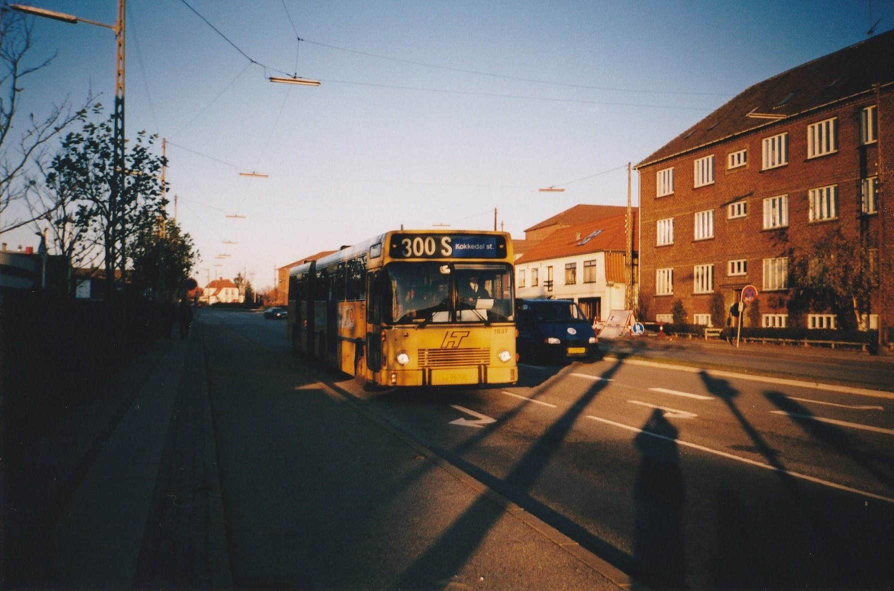 Arriva bus 1837 at HT bus line 300S on Banegårdsvej at Glostrup Station in Denmark.